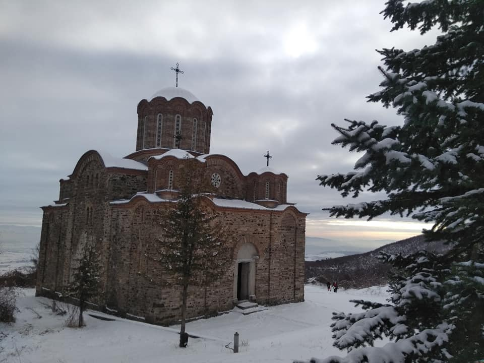 Dormition of the Theotokos Church in Matejče, Macedonia